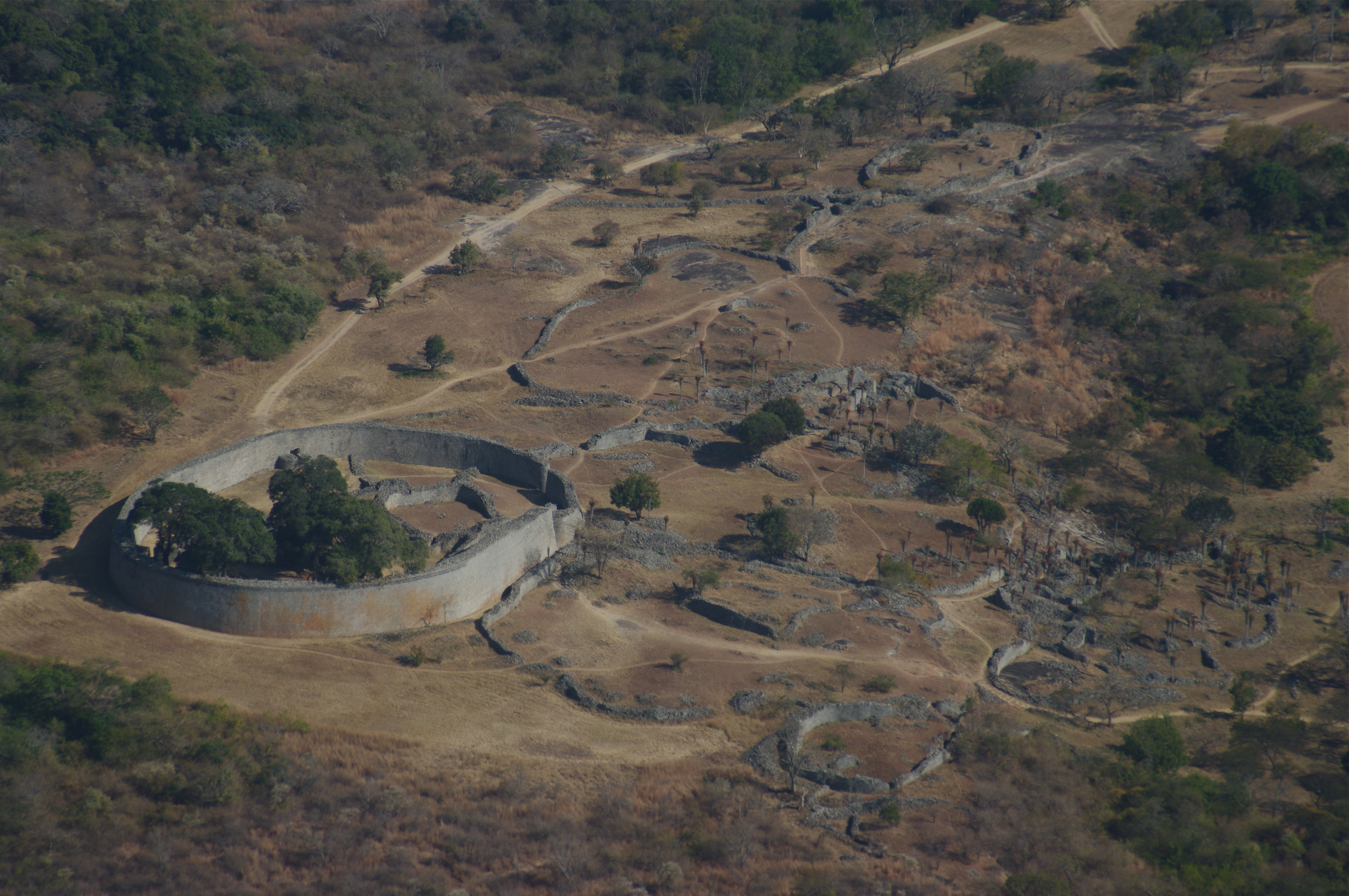 Aerial view of Great Zimbabwe's Great Enclosure (circumference 250 m, maximum height 11 m)[1] and adjacent ruins looking southeast from the Hill Fort.